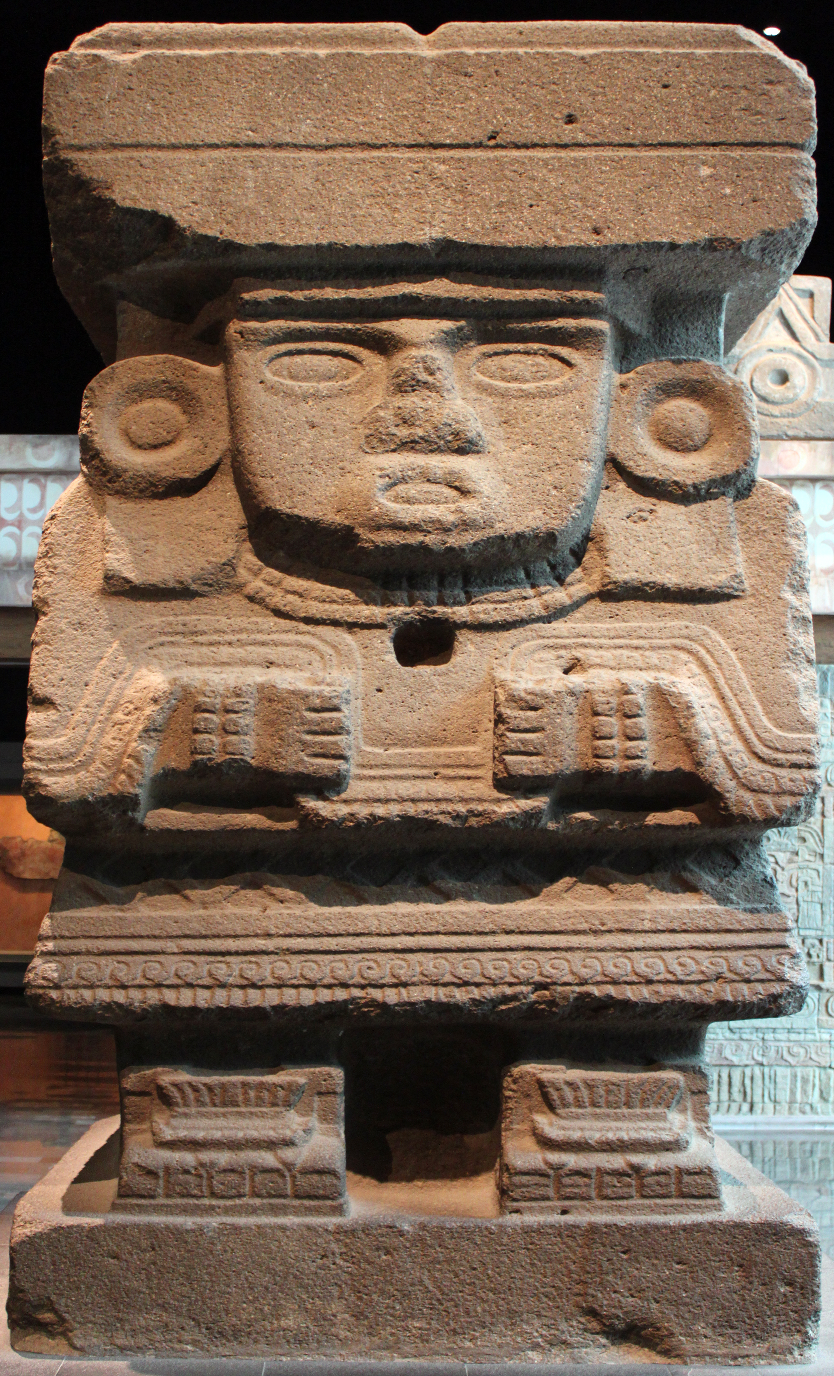 Chalchiuhtlicue, goddess of the "horizontal waters" (lakes, ponds and rivers that run or settle in the land); found in Teotihuacan; shown at the National Museum of Anthropology, Mexico City